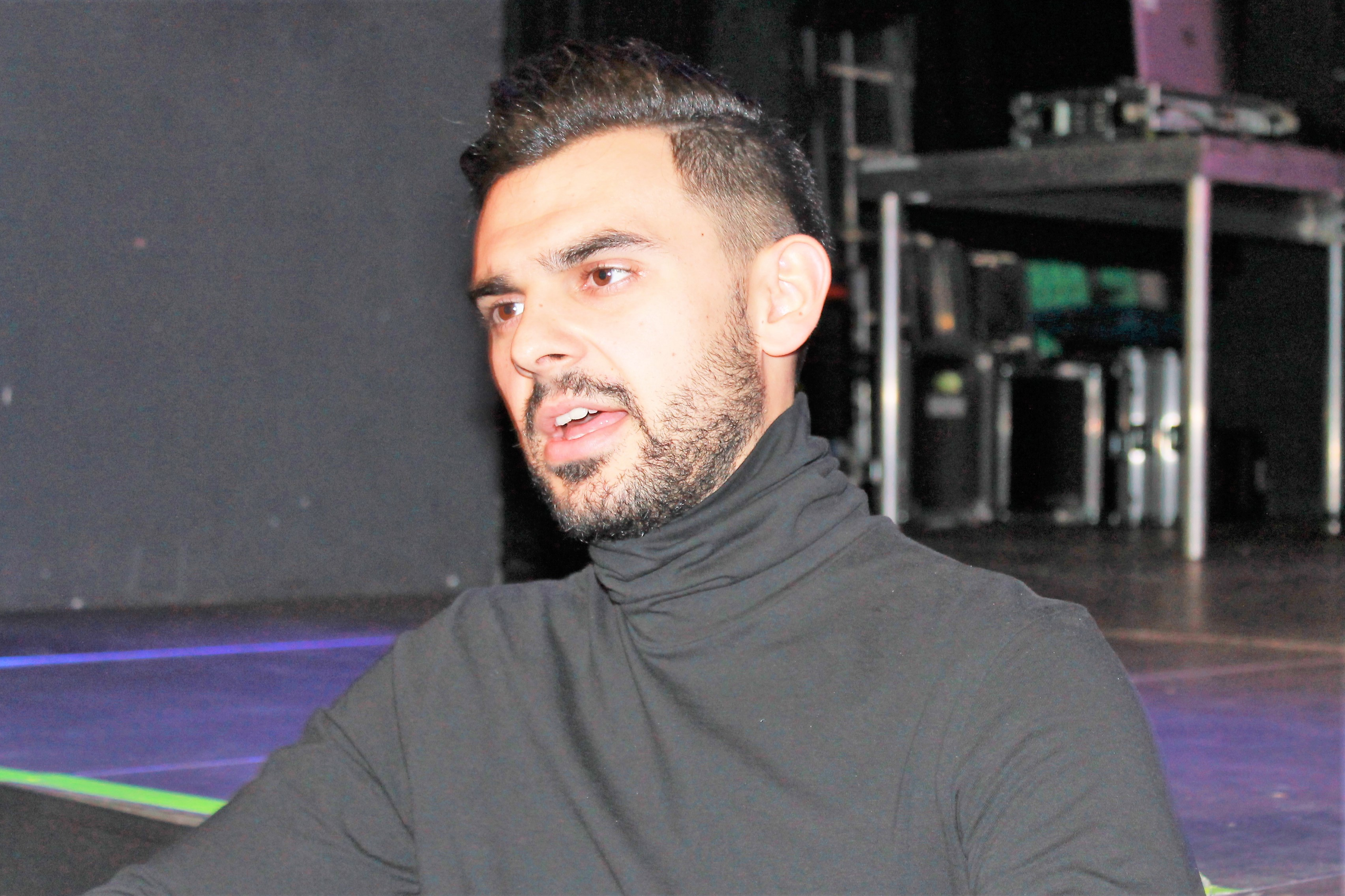 A Dal 2018 participant: Tamás Horváth